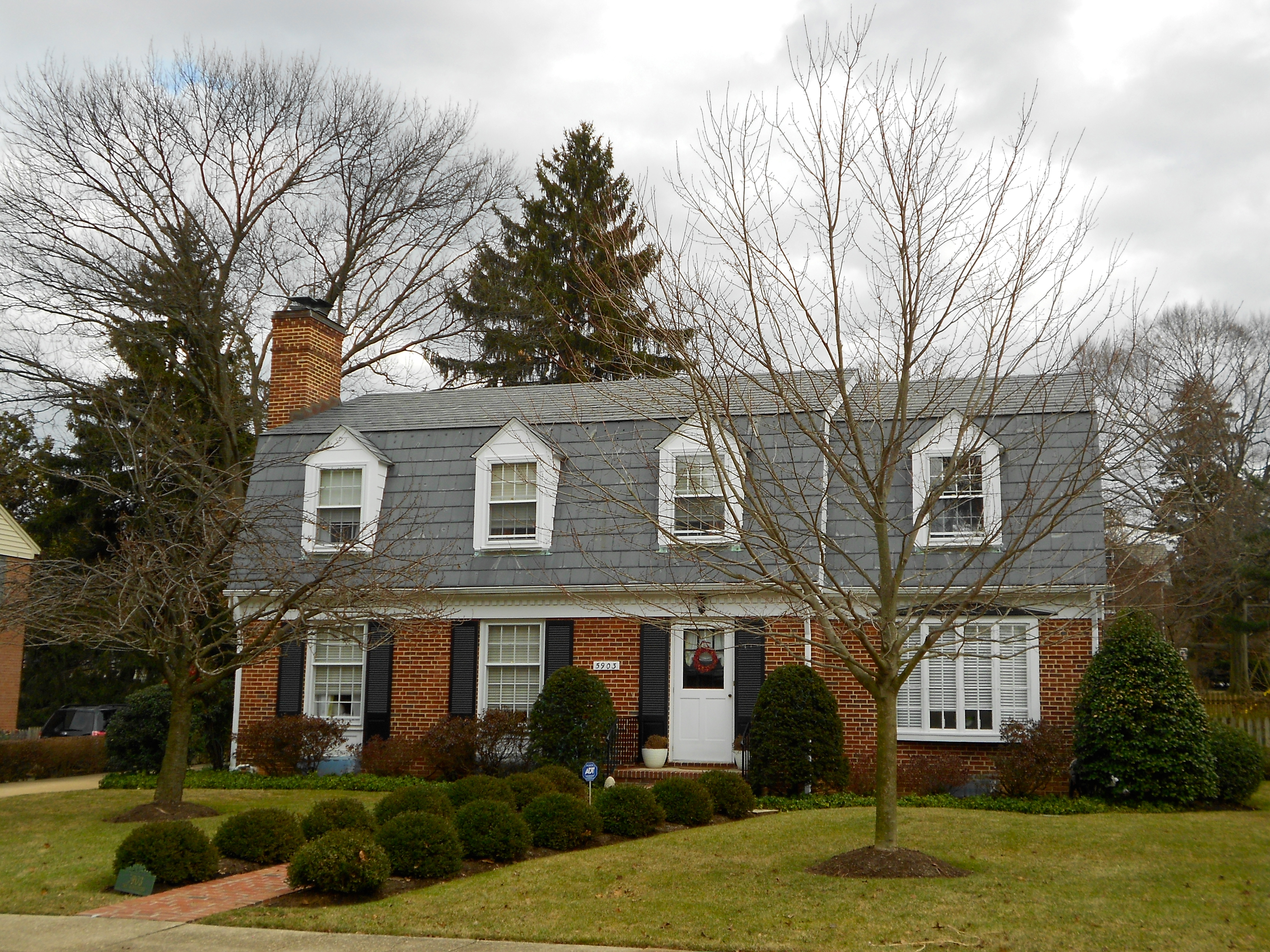 House in Bellona-Gittings Historic District listed on the NRHP on December 24, 2008. the historic district is bounded by E. Lake, Melrose, and Gittings Aves. and York, Charles, Charlesbrooke, and Overbrook Rds. in northern Baltimore. This house is in the southwest part of the HD near E.Lake and N. Charles